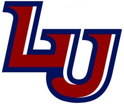 Logo for Liberty University athletics, updated in 2013.